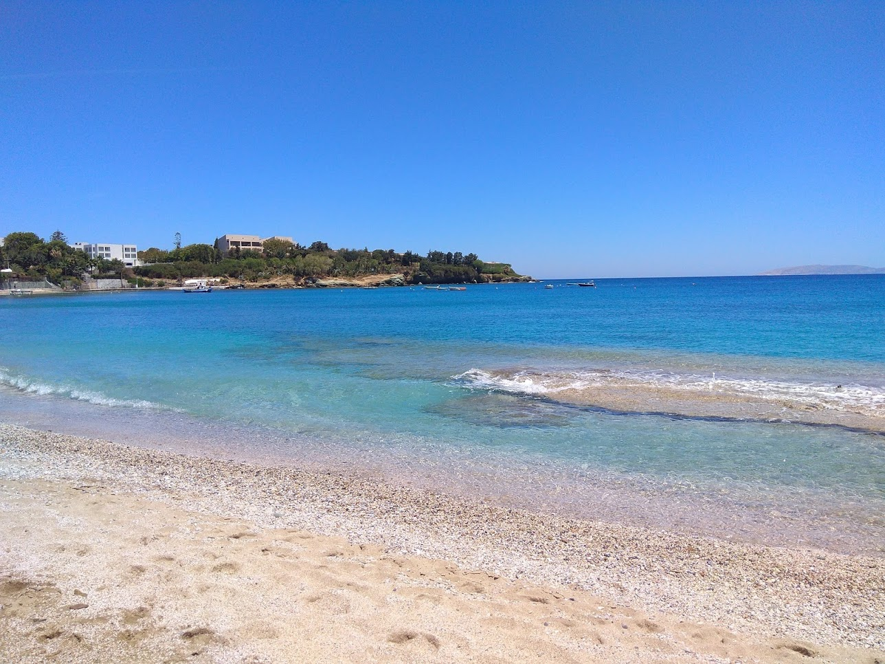 Agia Pelagia Heraklio Crete